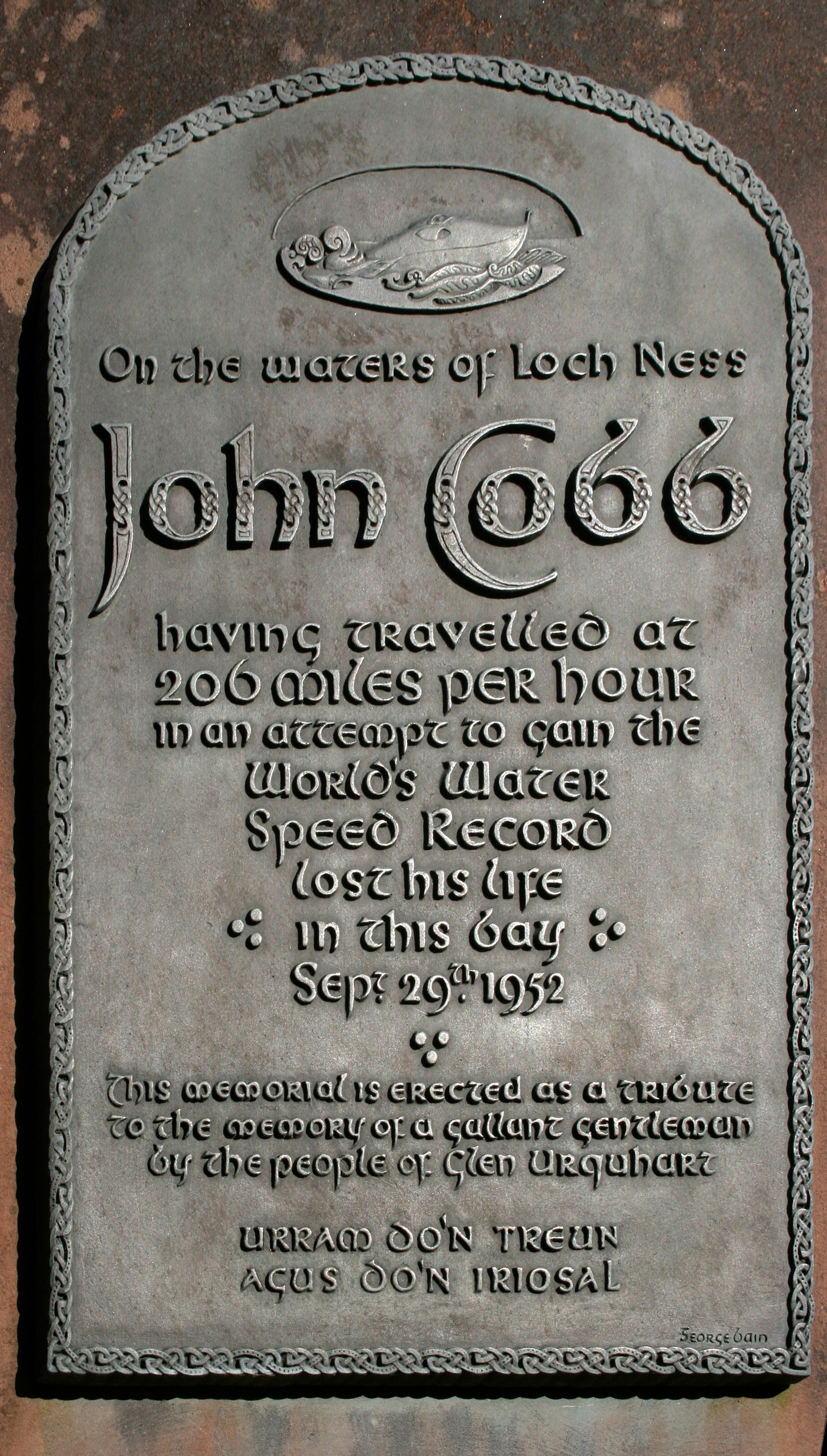 Memorial to John Cobb. Near Glenurquhart, Scotland.